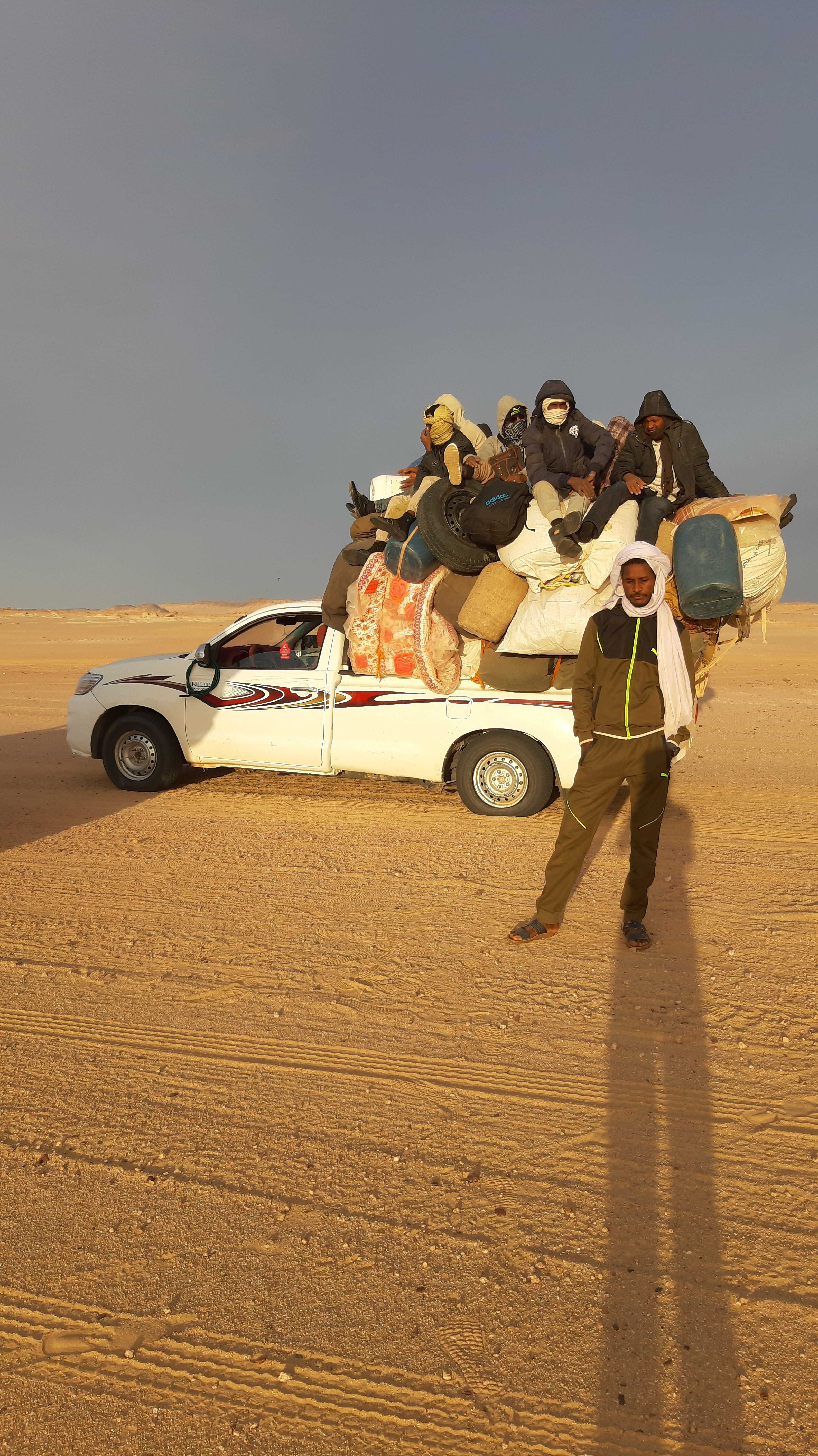 This is an image with the theme "Africa on the Move or Transport" from: Chad